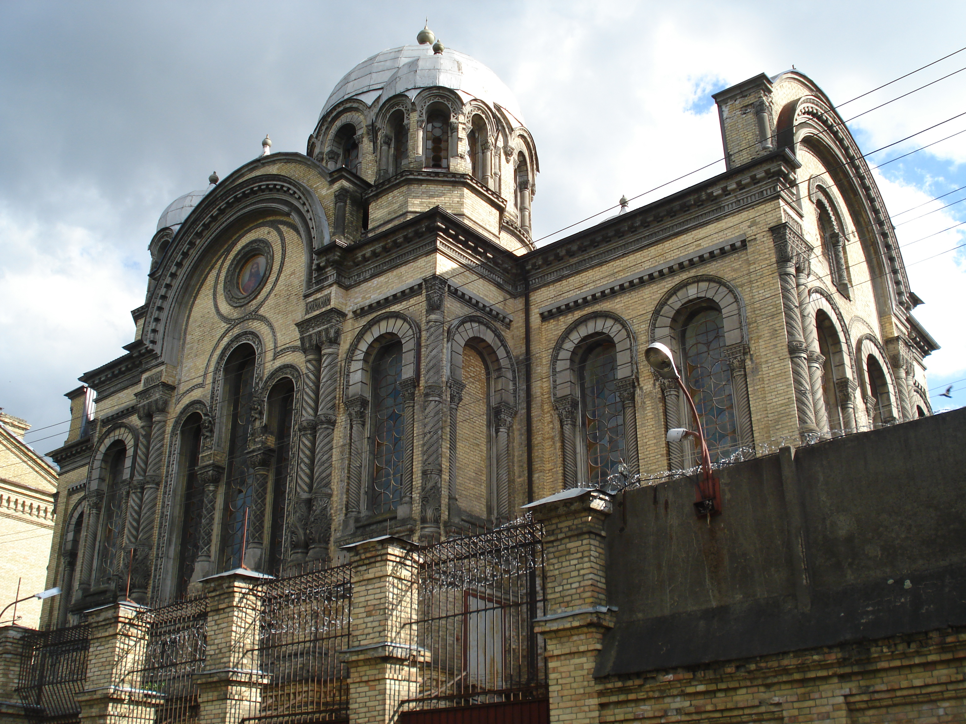 The Orthodox church of St. Nicolas' in Lukiški prison (Vilnius)